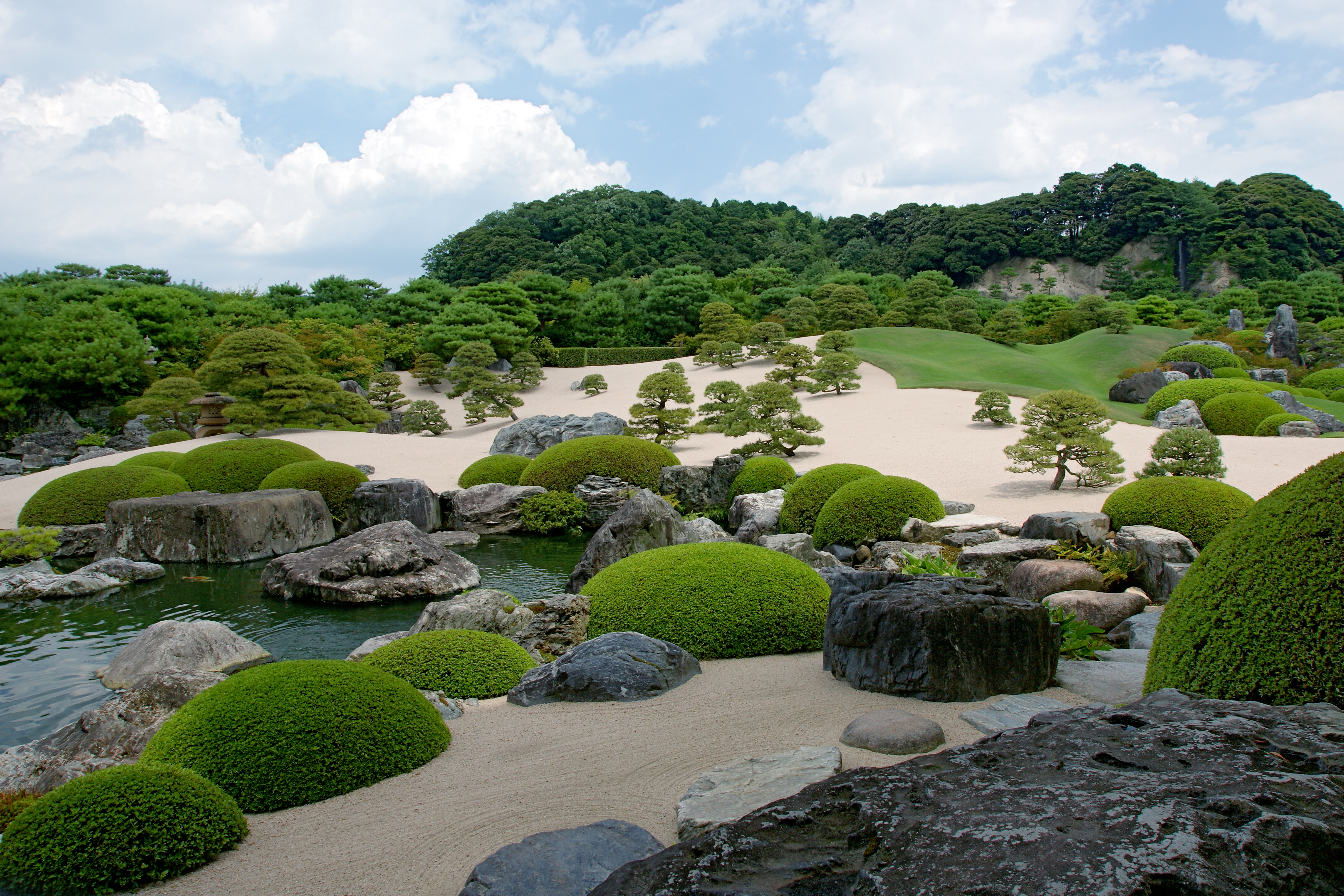 Adachi Museum of Art in Yasugi, Shimane prefecture, Japan